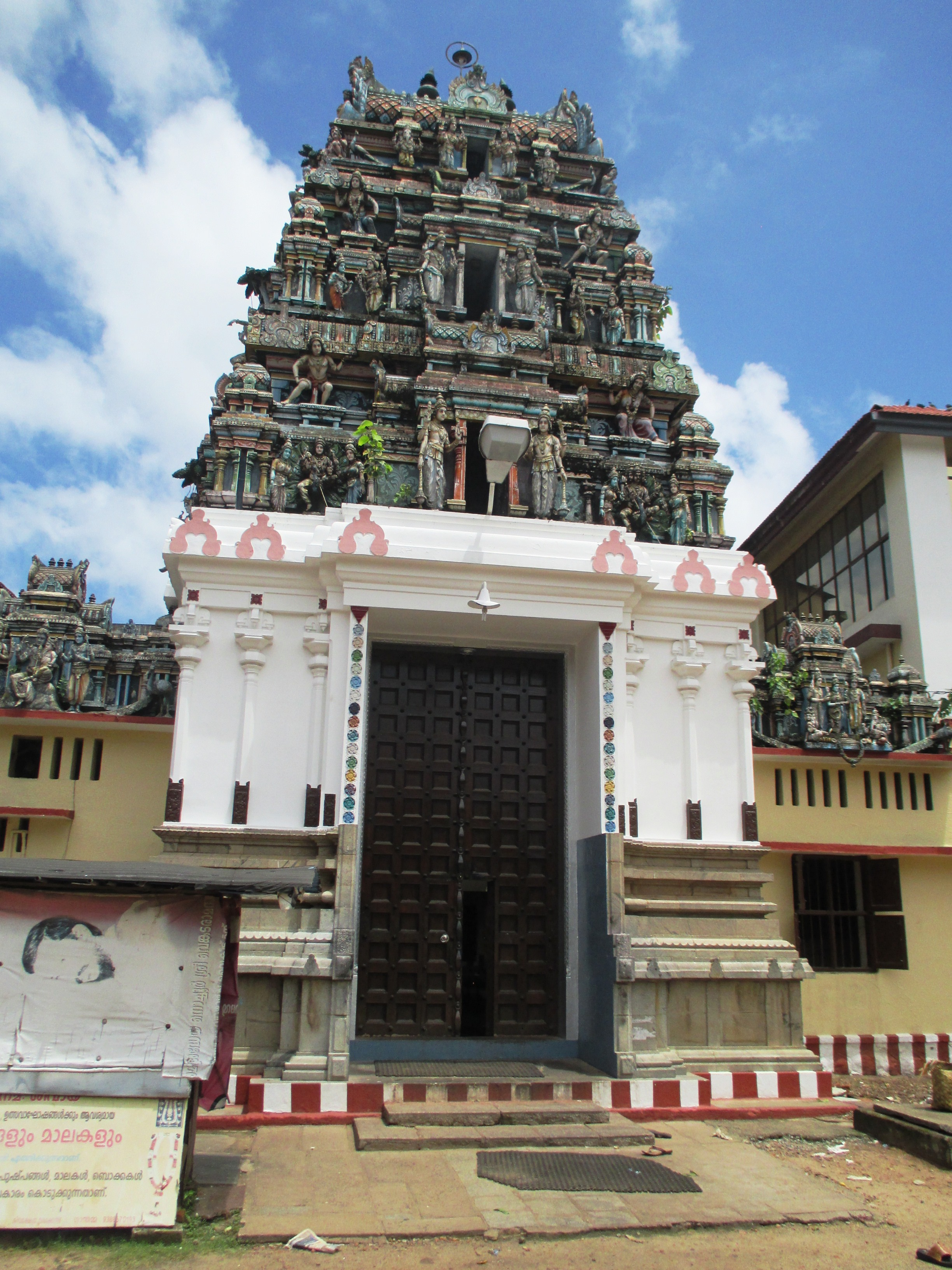 ernakulam temple